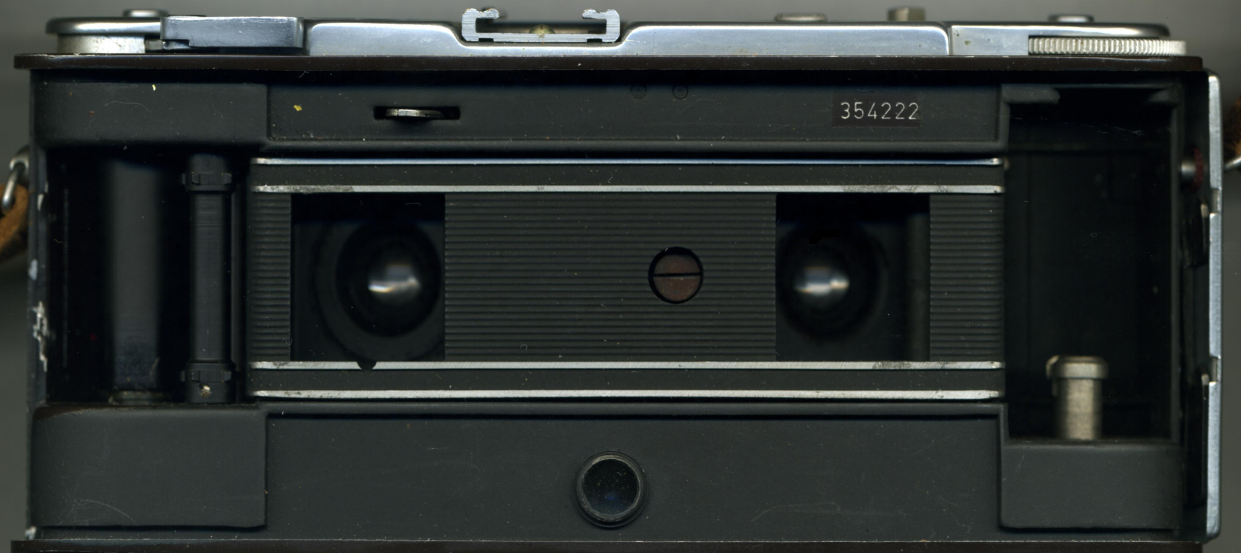 The Realist 45 stereo camera, viewed from back, showing film chamber